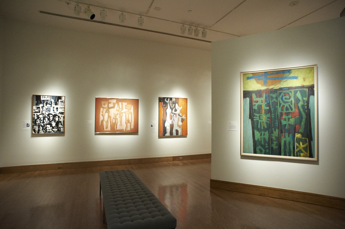 A few of the paintings from the exhibition Spiral.